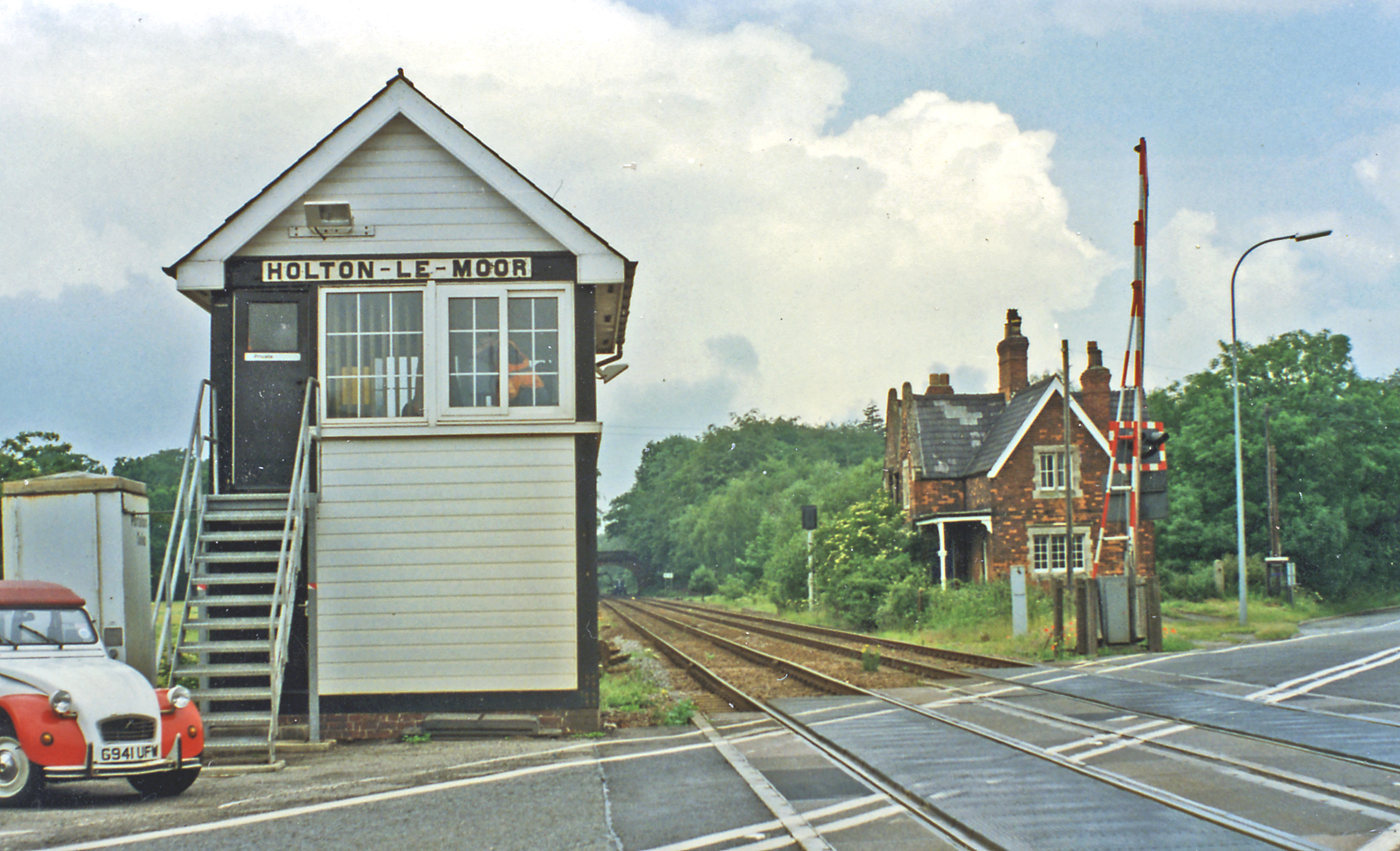 Holton-le-Moor: station remains and signalbox, 1997. View NW at level-crossing of A46, towards Barnetby: ex-GC (Cleethorpes, Grimsby/Immingham - Barnetby - Lincoln line. The station was closed 1/11/65 but the line remains in active use - and the signlabox is still there.